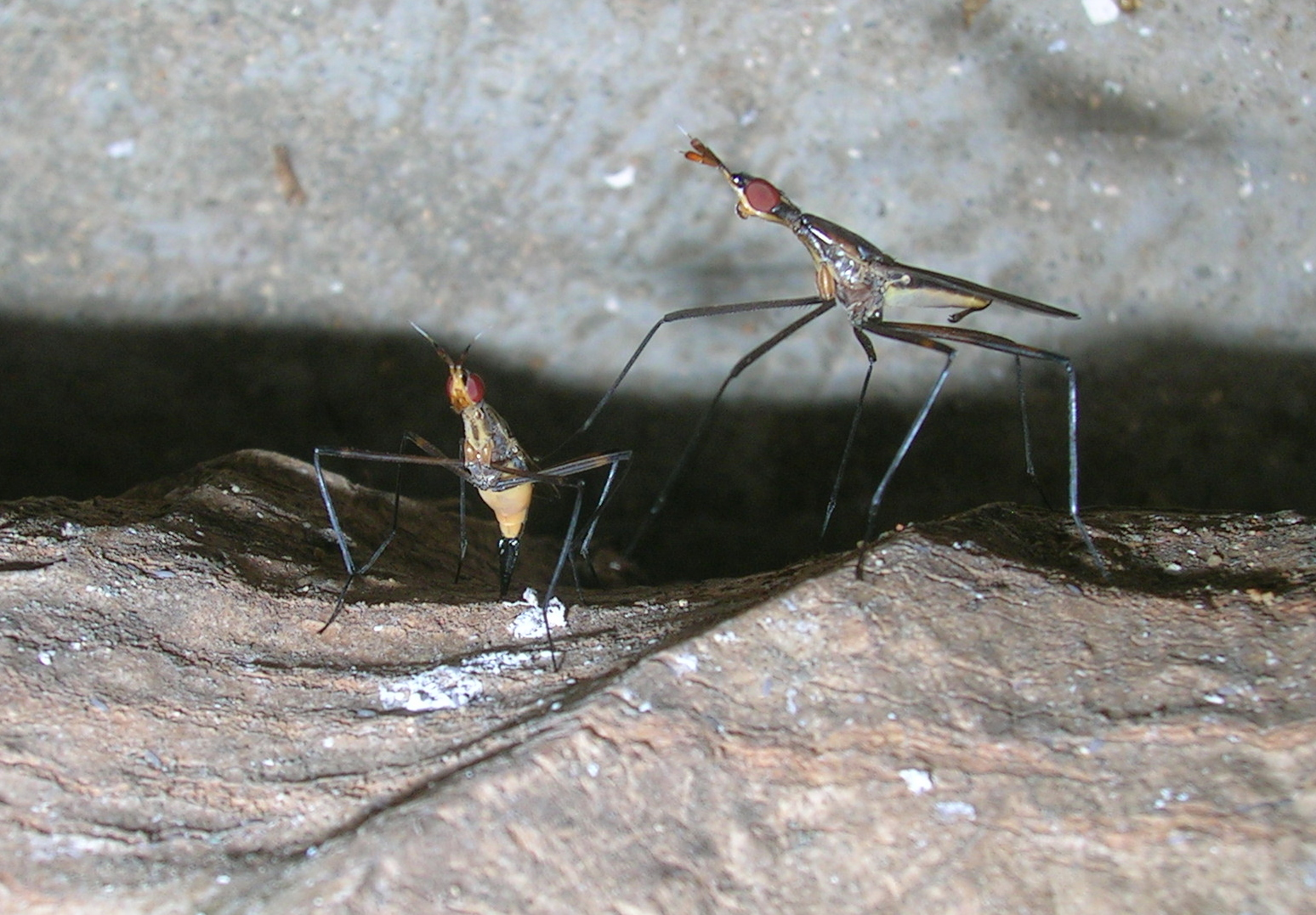 A Telostylinus lineolatus Neriidae female oviposits while a male stands nearby (Bangalore, India)